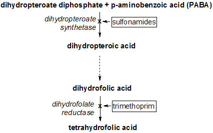 Tetrahydrofolate synthesis pathway